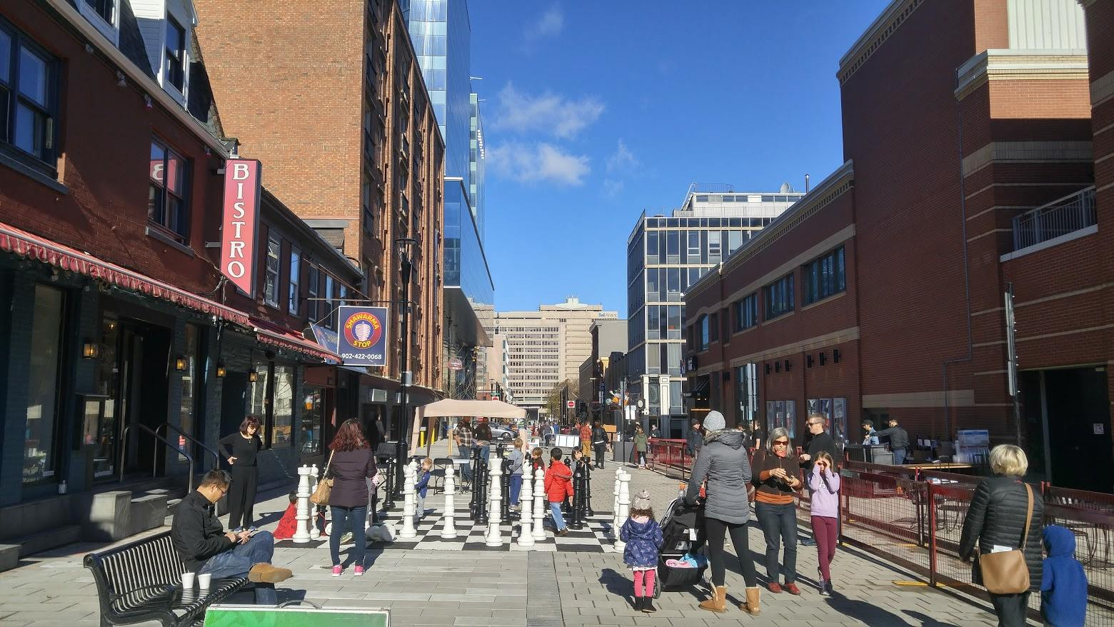 Argyle Street, Halifax, on the opening day following the streetscaping project.